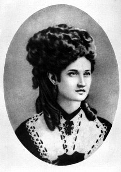 19th century photograph of Ukrainian author Natalia Kobrinska